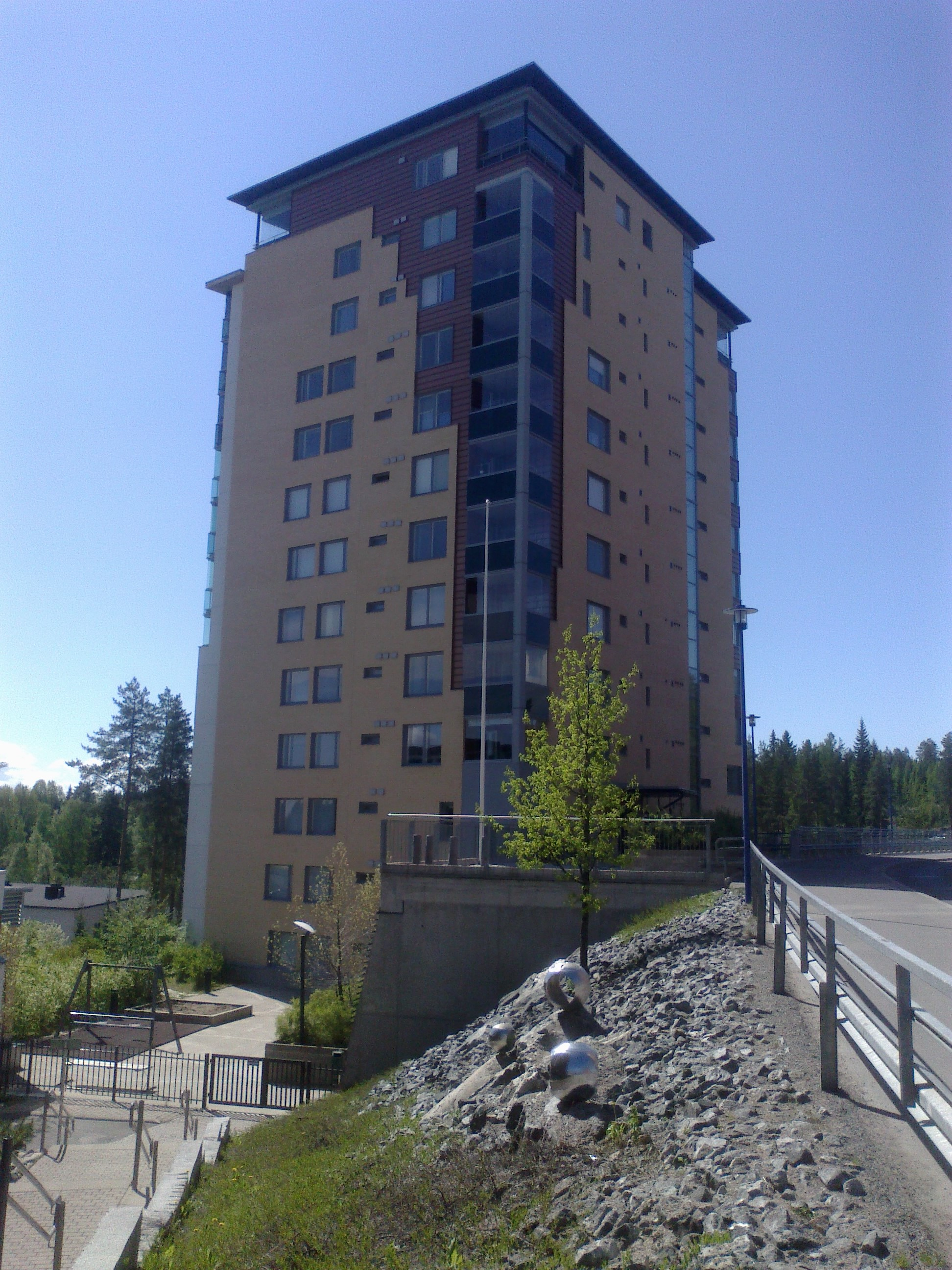 An apartment house close to the Keilankanta Channel (Lake Kallavesi) in Kuopio, Finland